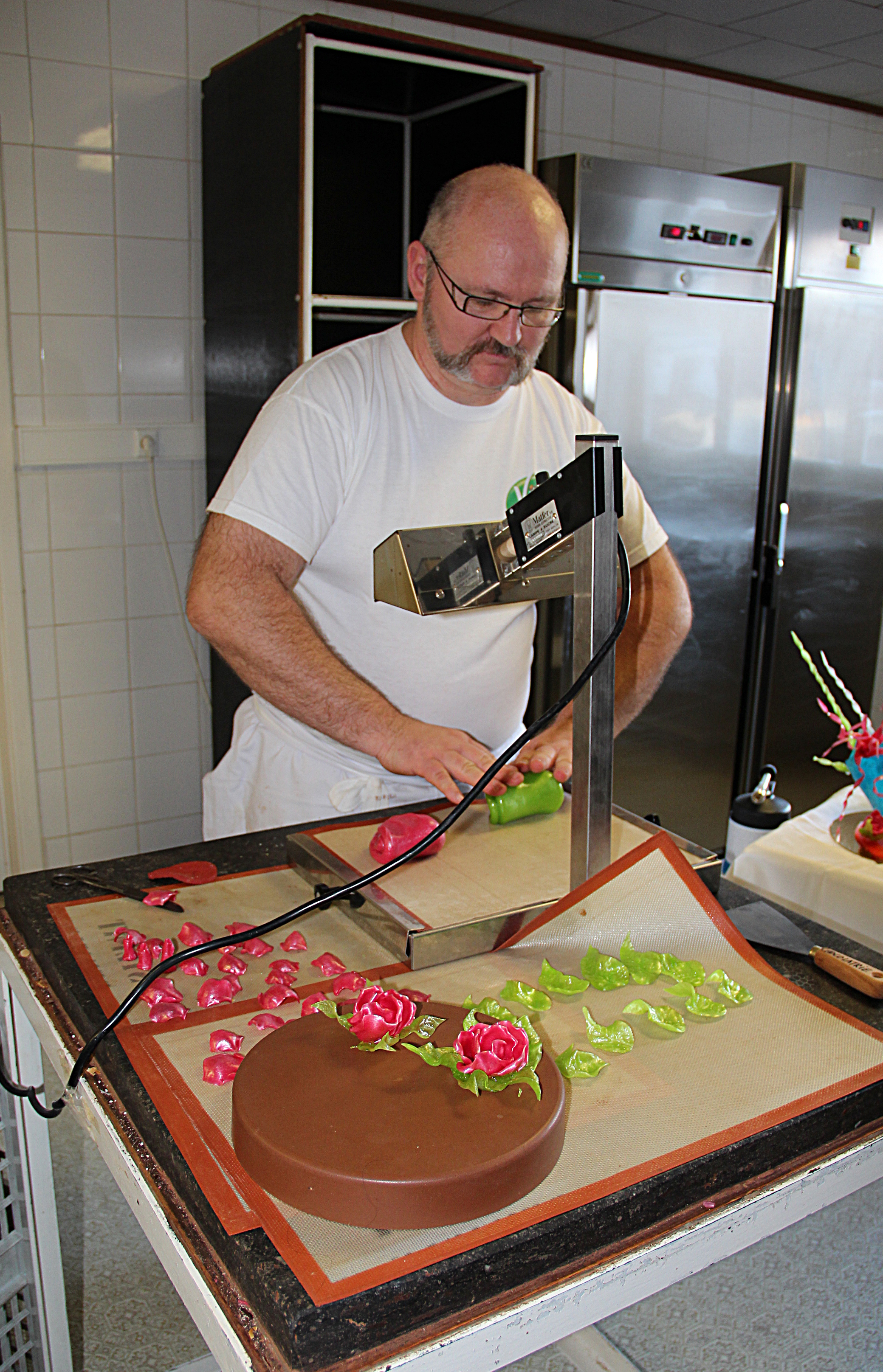 Workshop of the confiseur-chocolatier of the Godefroid bakery in Frameries.